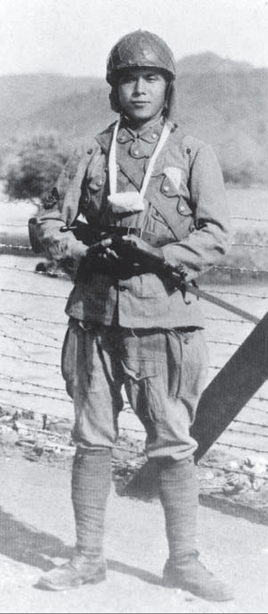 A paratropper of the Special Naval Landing Forces is carrying the ashes of a fallen comrade. 1942th